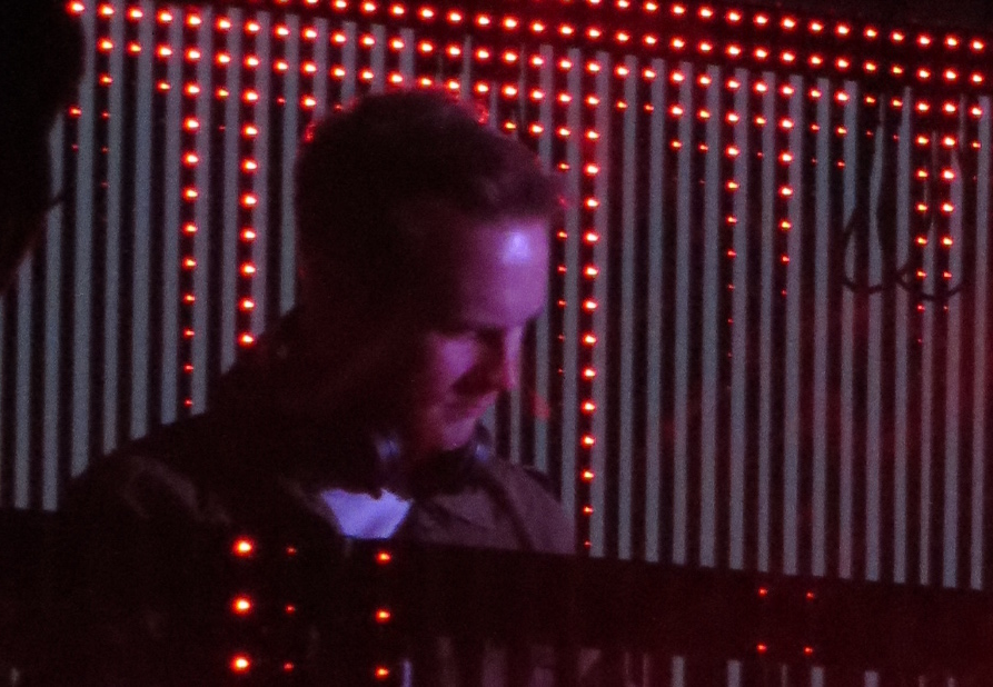 Fox Stevenson (born Stanley Stevenson Byrne, formerly known as Stan SB) together with Feint (born Andy Hu) at Liquicity Festival 2015 (Diemerbos, The Netherlands).